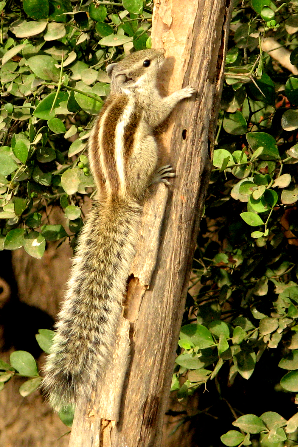 Northern Palm Squirrel or Five-striped Palm Squirrel (Funambulus pennantii) taken in Aravali Biodiversity Park, Delhi, India